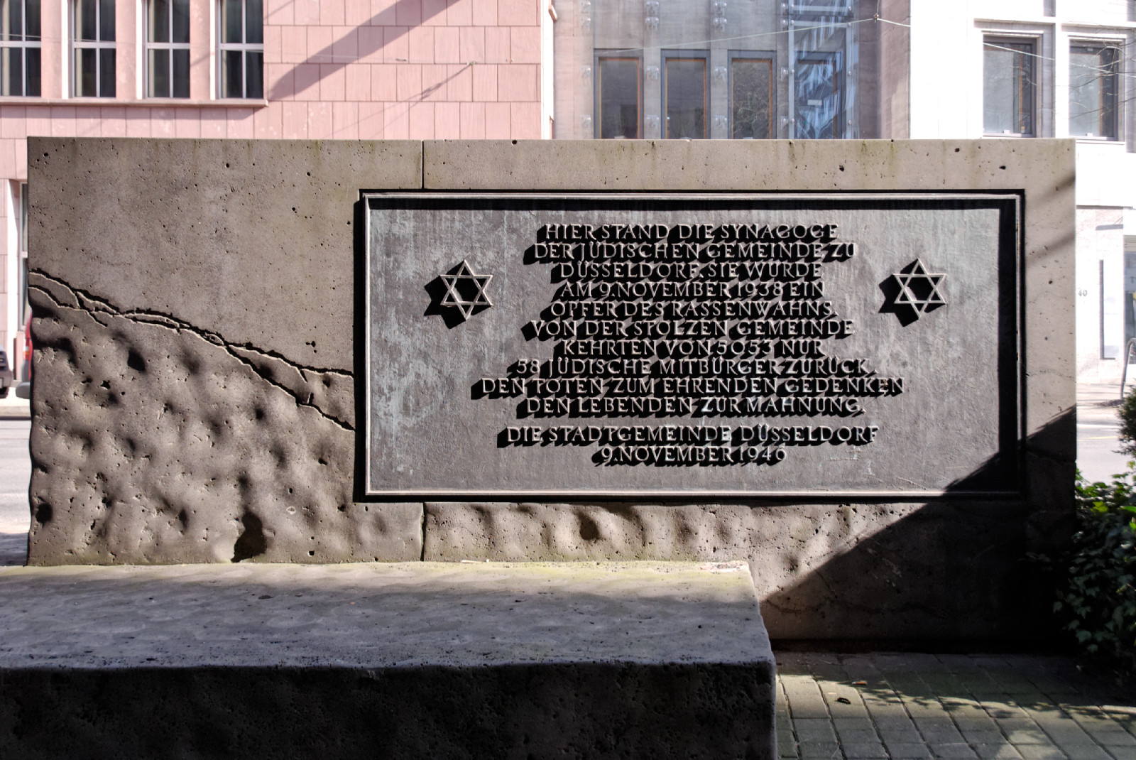 Monument for the Big Synagoge in Düsseldorf-Carlstadt, Germany